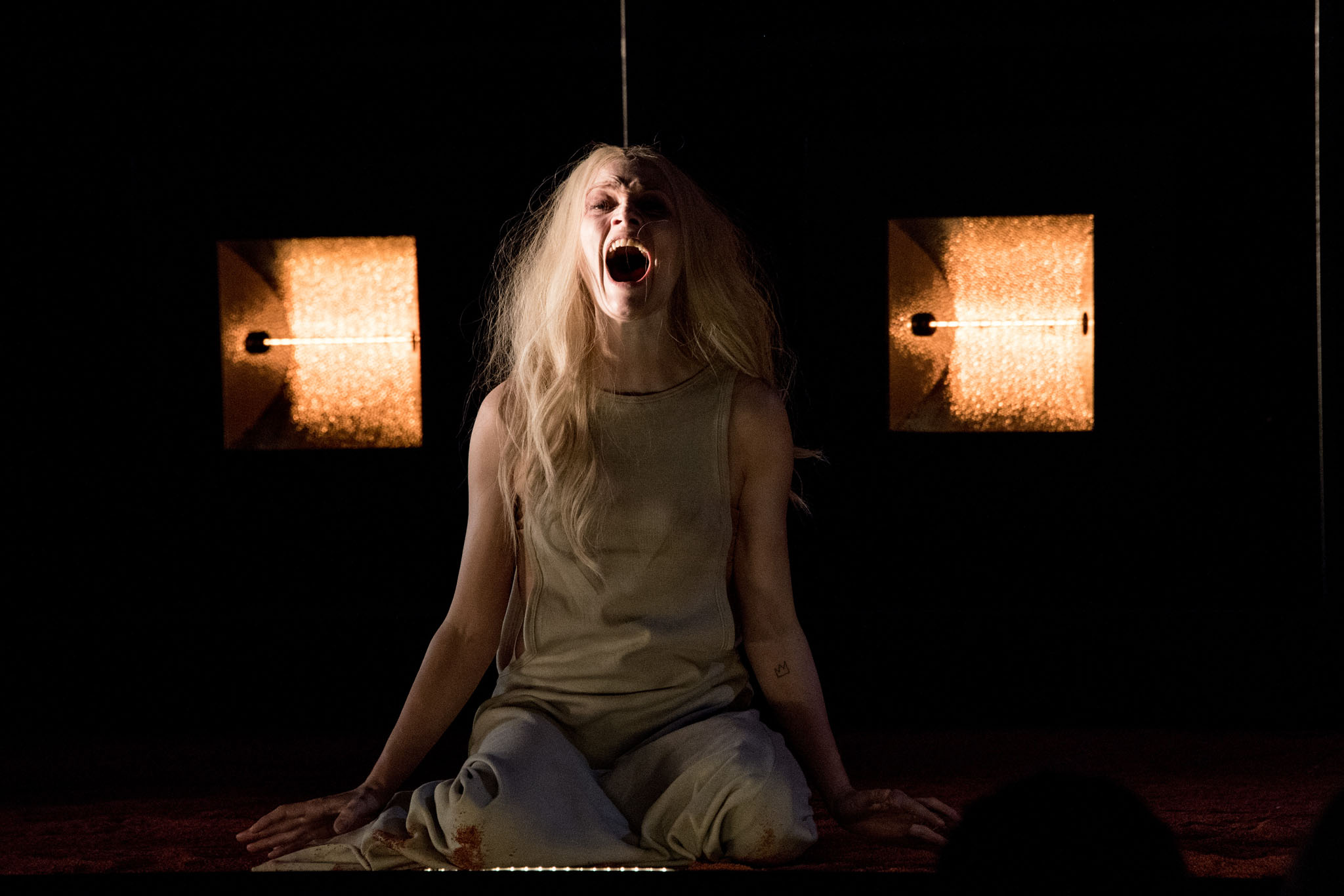 Antigone by Sophokles, Burgtheater 2015 (with Mavie Hörbiger in the role of Ismene)